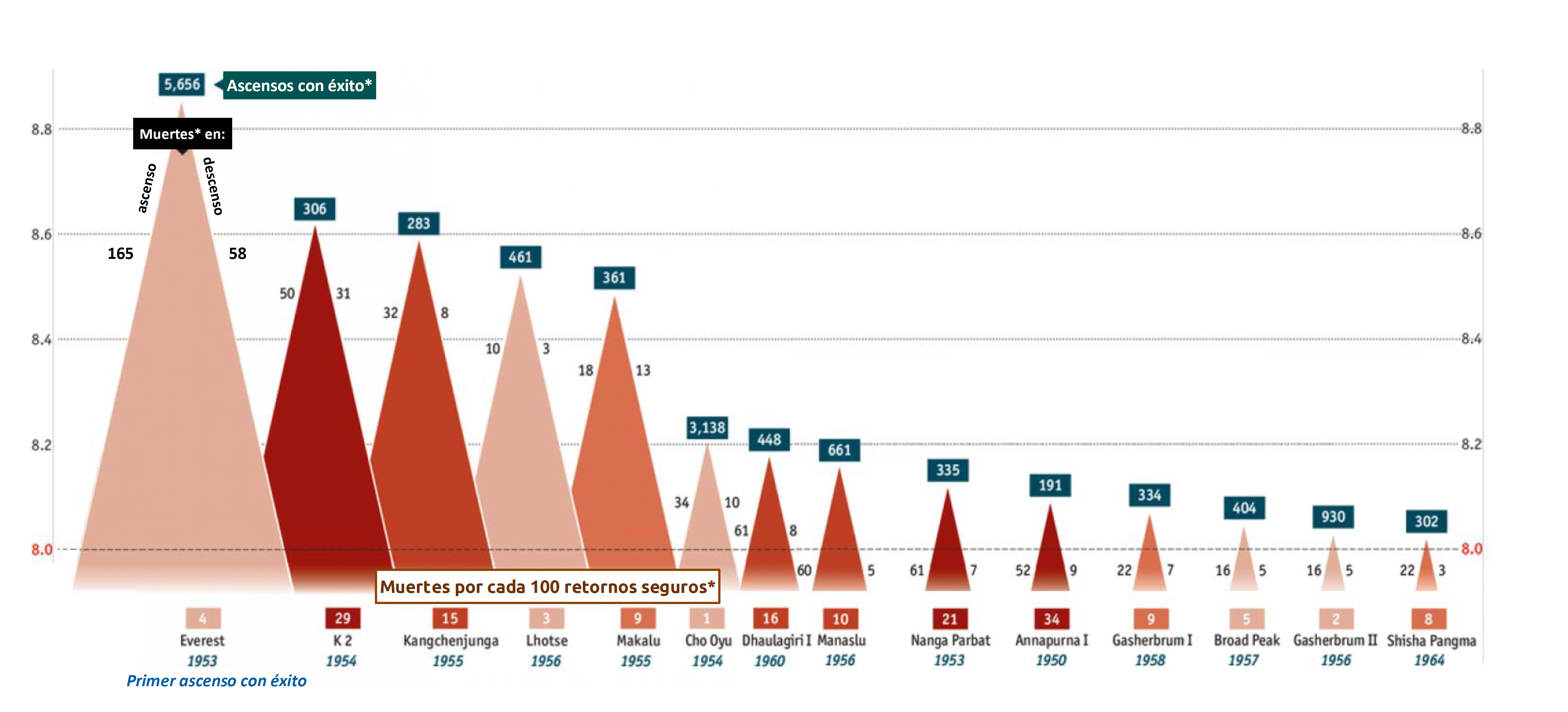 Recreation of the graphic of deaths above base camp on eight-thousanders from 1950 to March 2012